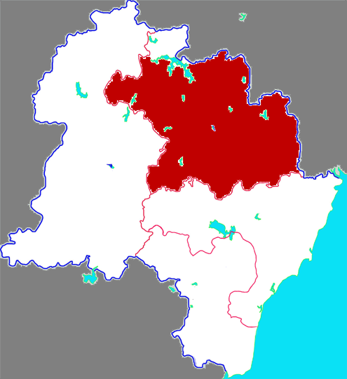 Location of Wulian county in Rizhao City, China